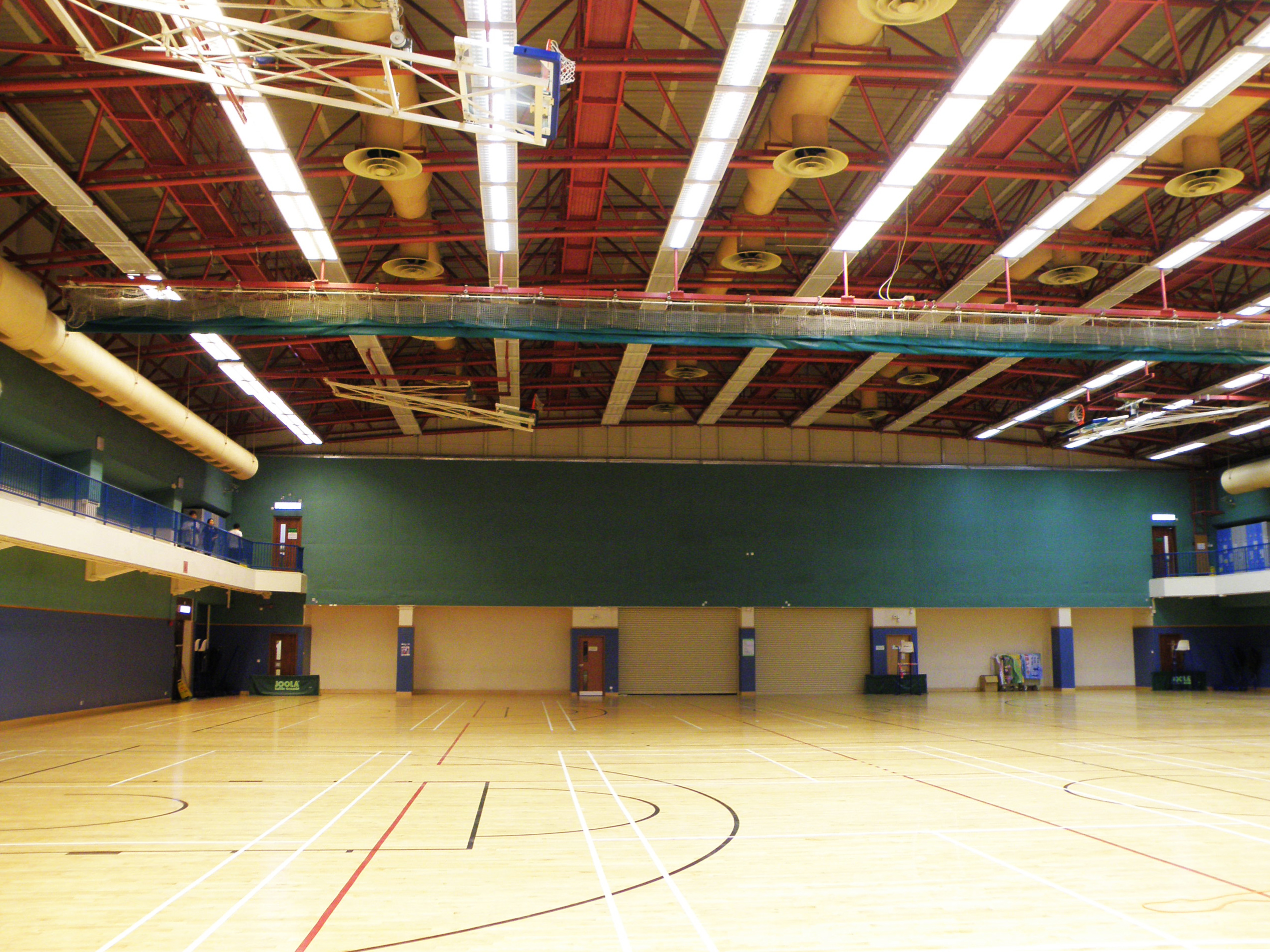 Osman Ramju Sadick Memorial Sports Centre in Kwai Hing, Hong Kong.